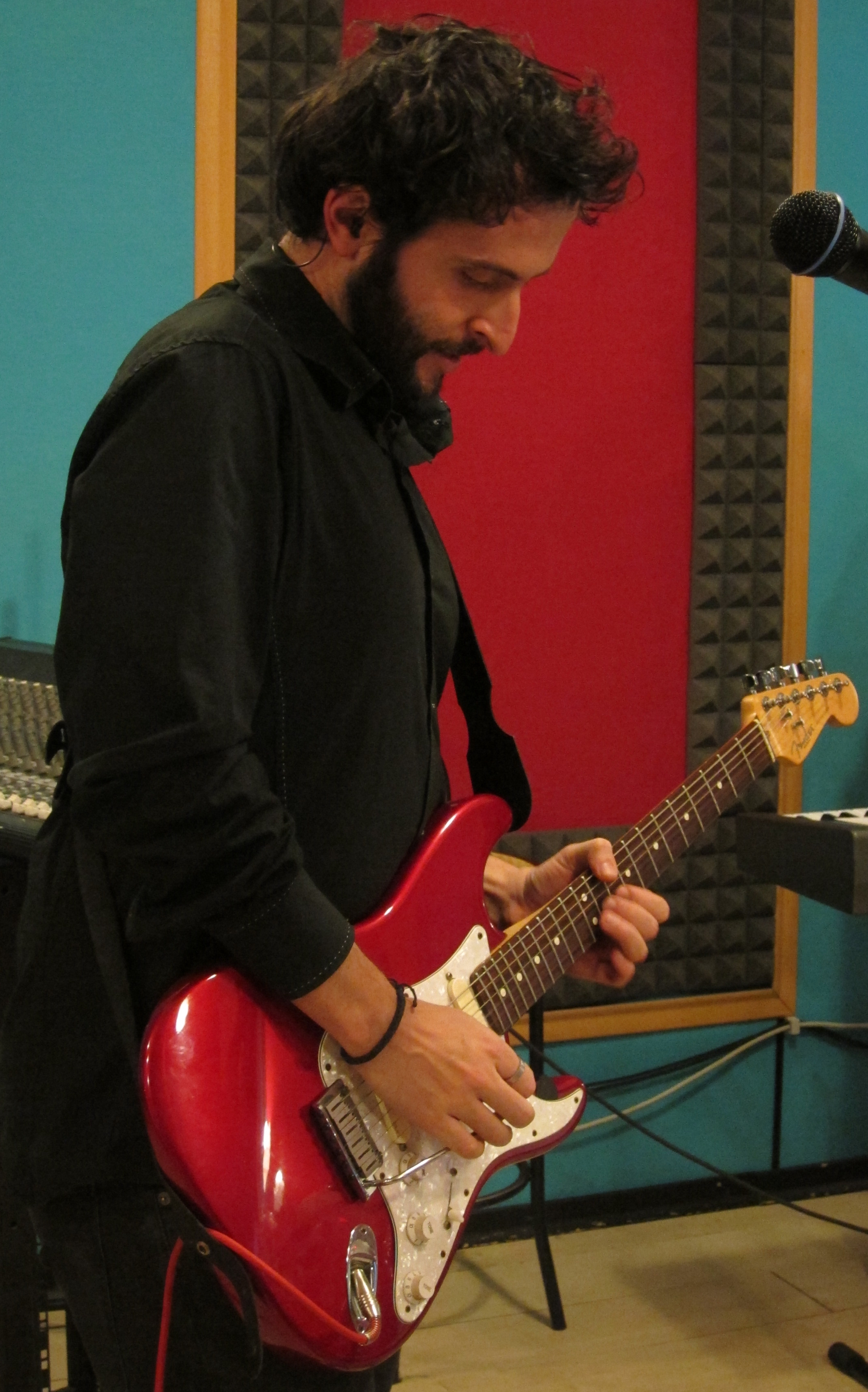 Giancarlo Erra - Founder and Frontman of Nosound